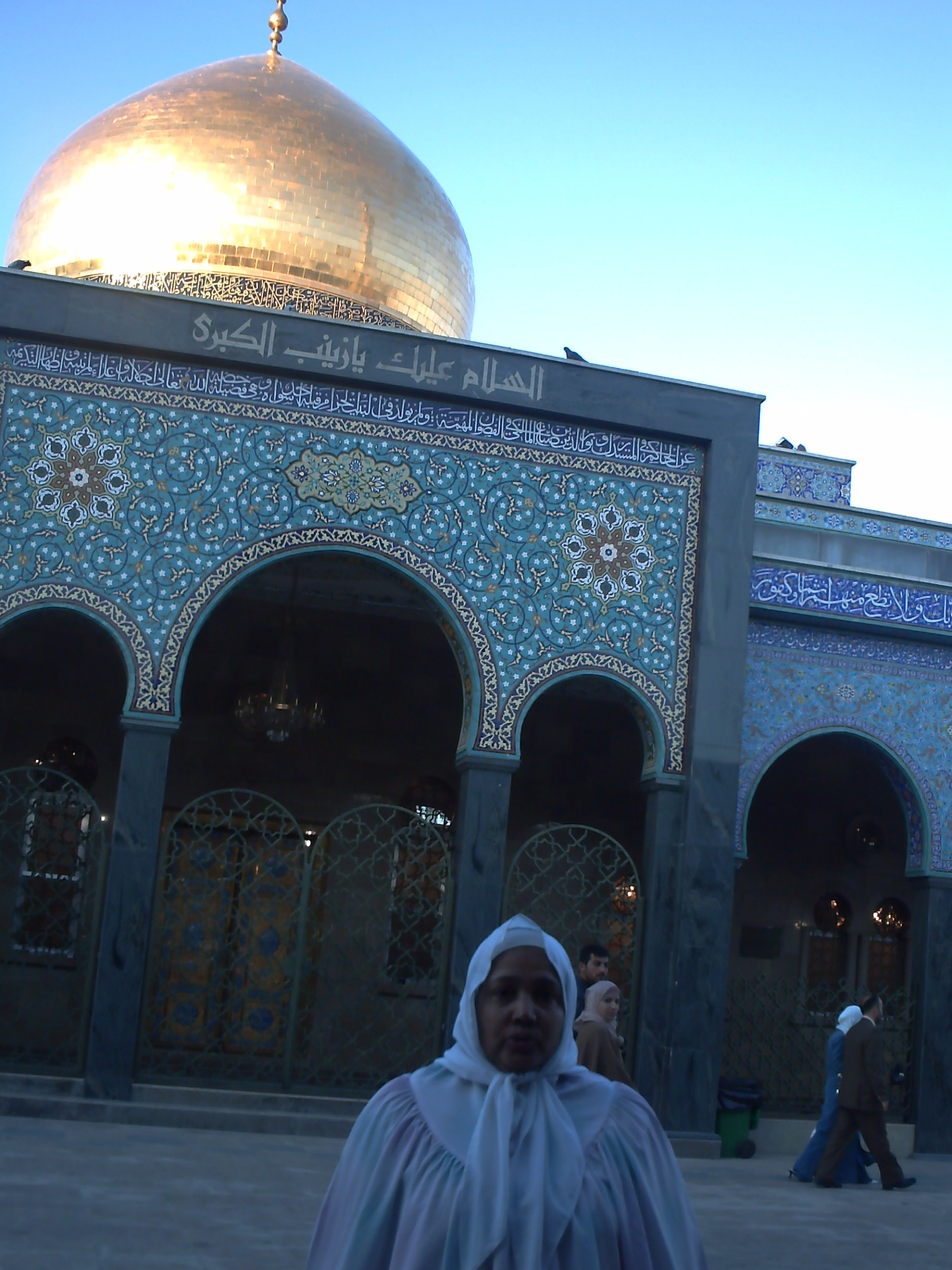 Zainab-ul_Kubra_Mosque,Damascus,Sham